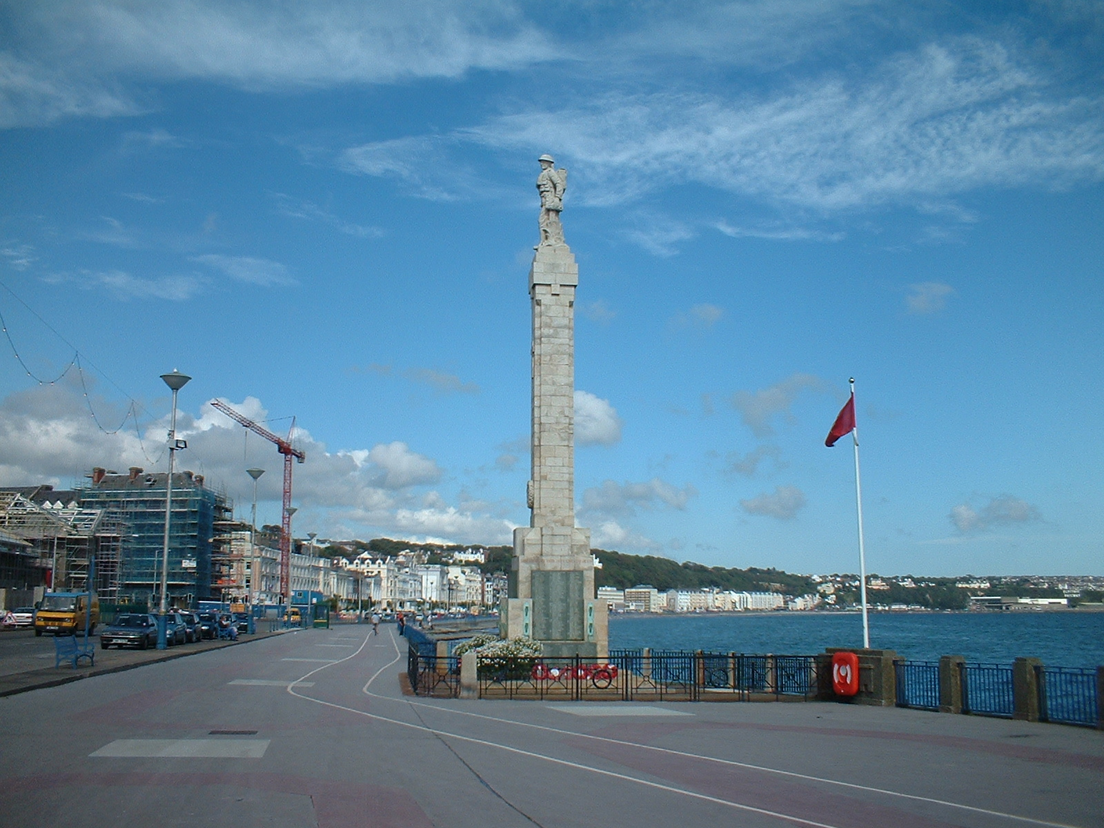 Øya Man, hovedstaden Douglas, krigsminnemerk (bauta) Isle of Man, main city Douglas, War Memorial